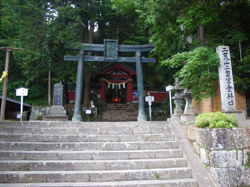 Nikko Futarasan Chugushi Shrine Tohaimon gate, is an entrance of Mount Nantai. Nikkō, Tochigi, Japan.